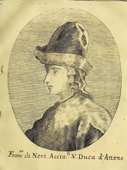 Francensco_I_Acciaiuoli Duch of Athens